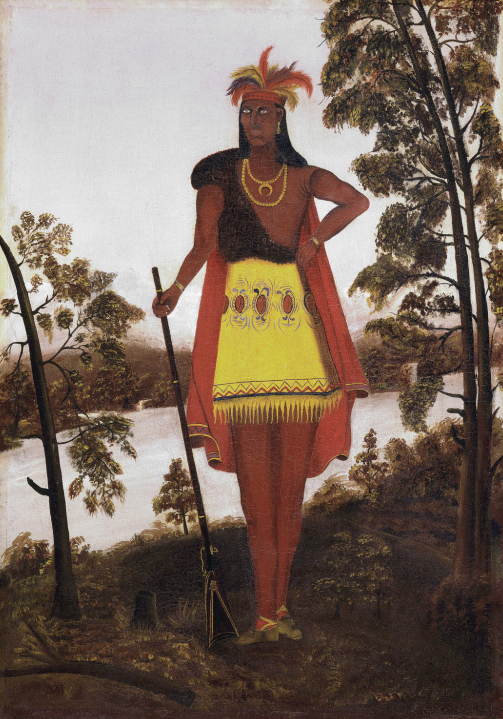 Oneida Chieftain Shikellamy oil on canvas 114.6 x 81 cm circa 1820